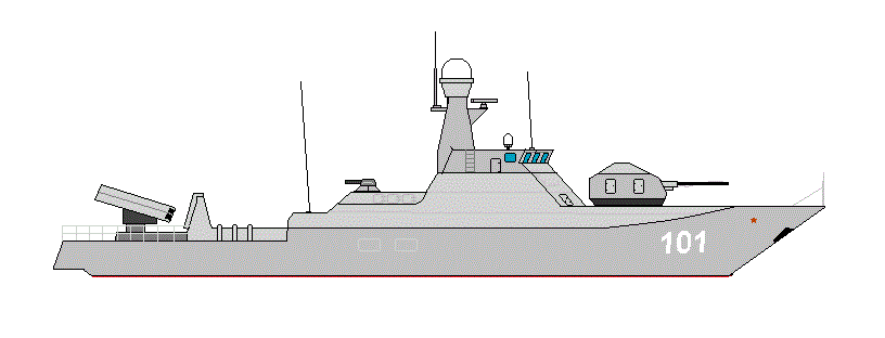 Russian Buyan class corvette